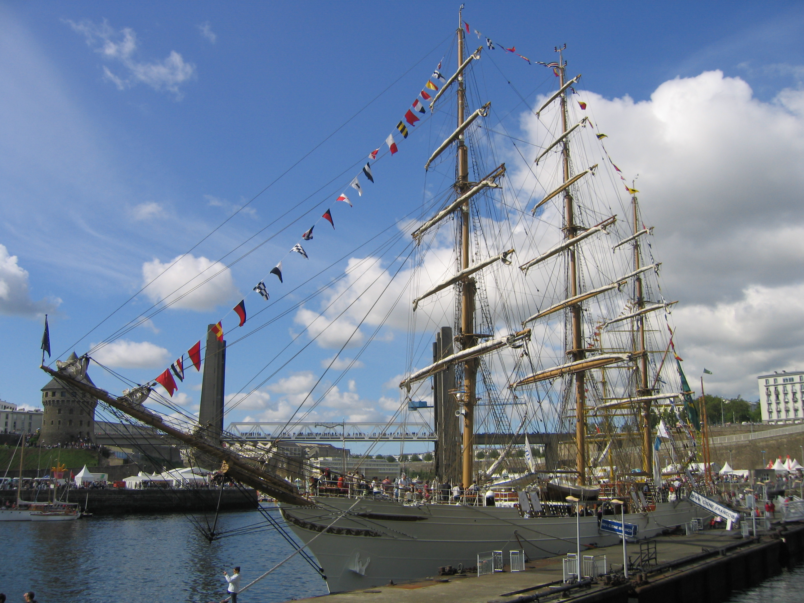 The Cisne Branco, Brazilian instructional sailing ship for the cadets, in the Brest military harbourg during "Brest 2008".